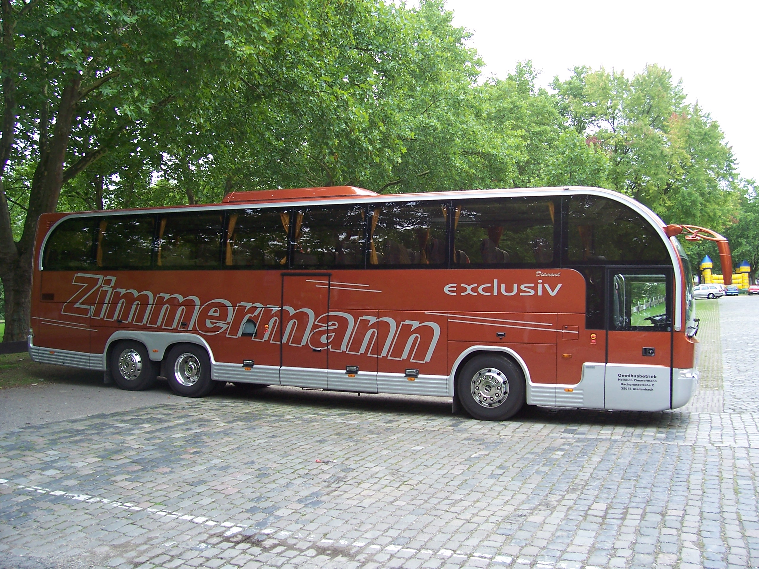 Temsa Diamond coach (reg. MR-HZ 120) in Mannheim, Germany. Omnibusbetrieb Heinrich Zimmermann from Gladenbach operator.